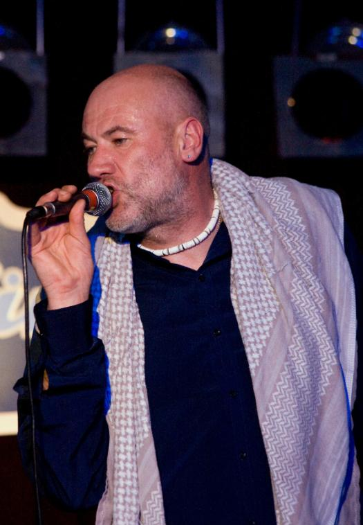 Fish appearing live at BB Kings in NYC, June 2008